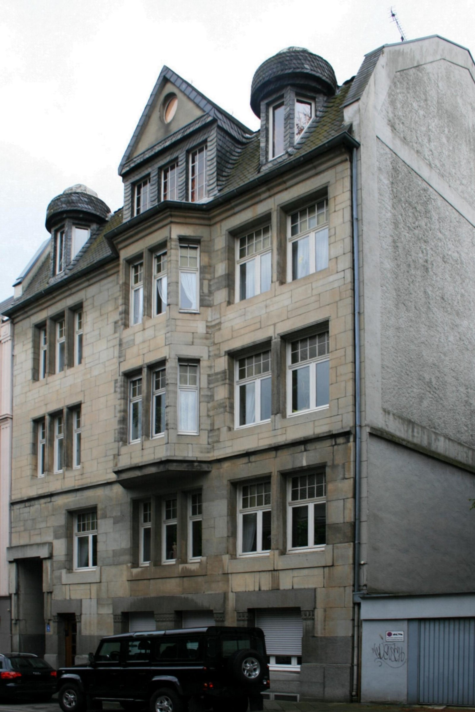 Cultural heritage monument No. B 017 in Mönchengladbach